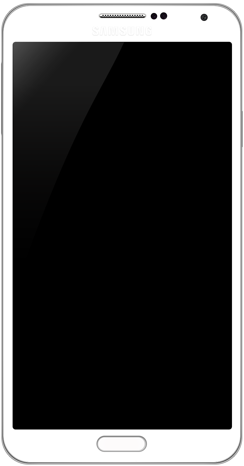 Samsung Galaxy Note 3 render